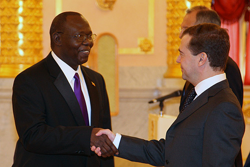 THE KREMLIN, MOSCOW. Presentation ceremony of foreign ambassadors’ letters of credentials. Ambassador of the Republic of Uganda Moses Ebuk presents his letter of credentials to the President.